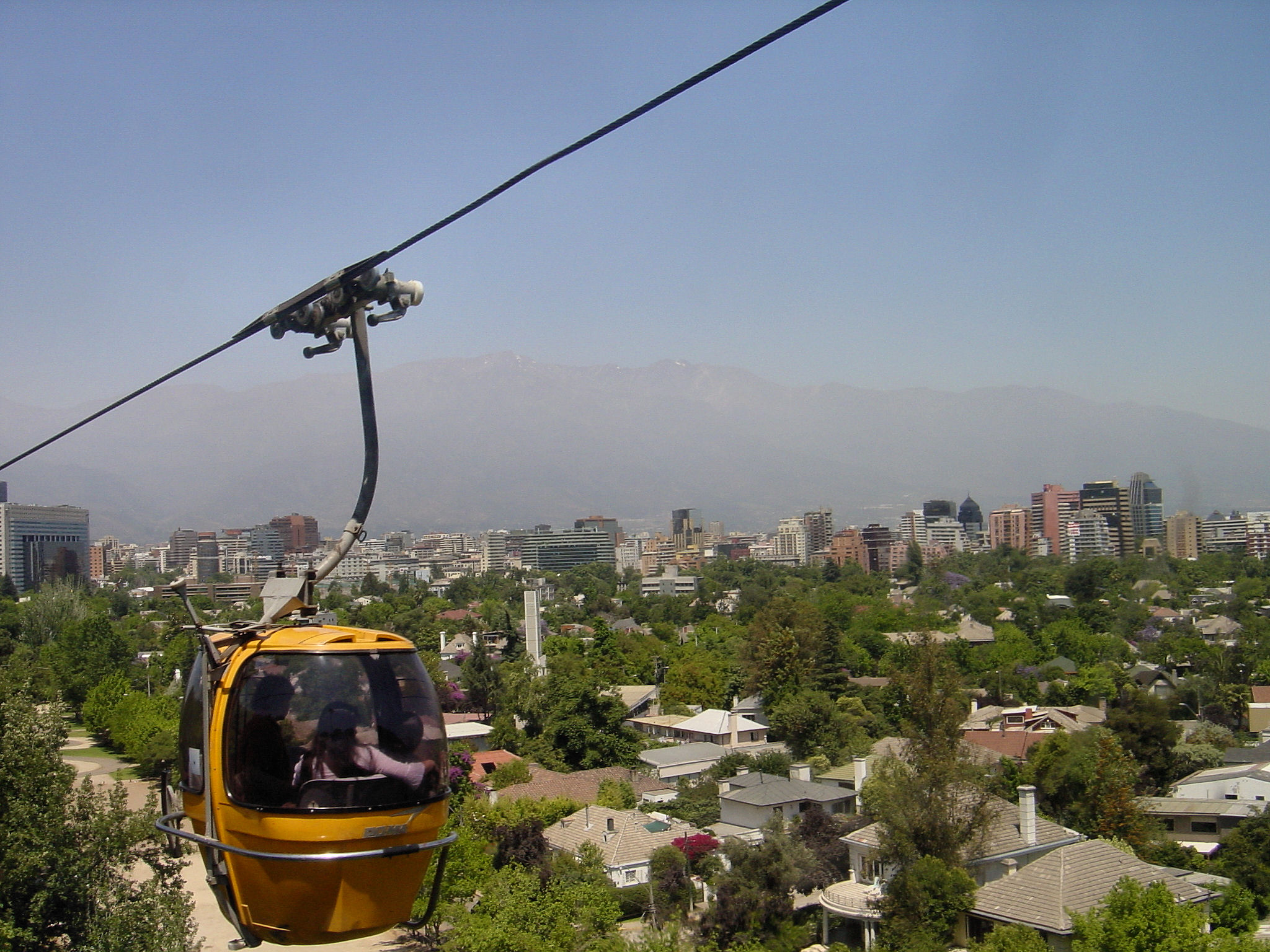 View from a Santiago cable car